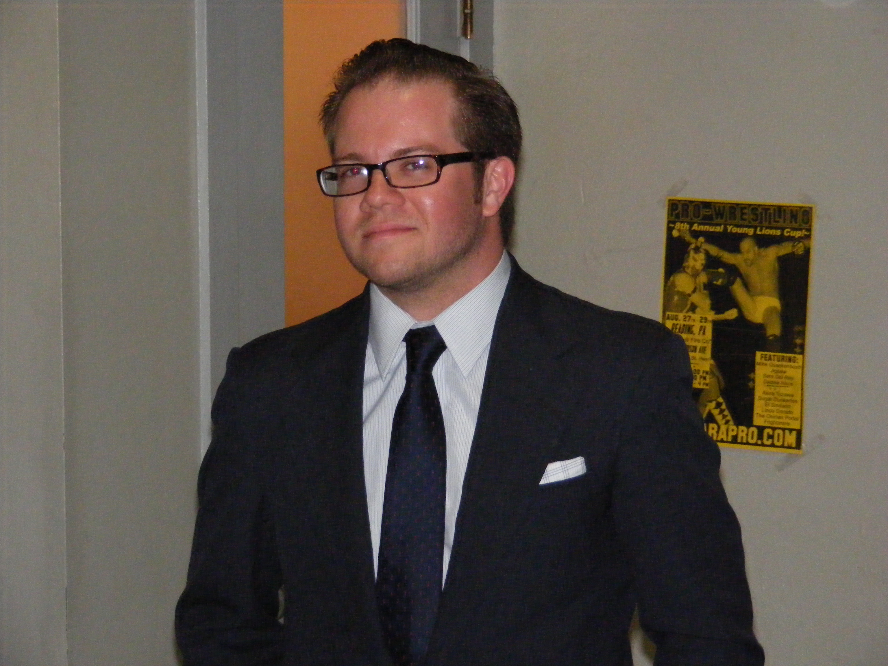 Professional wrestling personality Wink Vavasseur at a Chikara event.